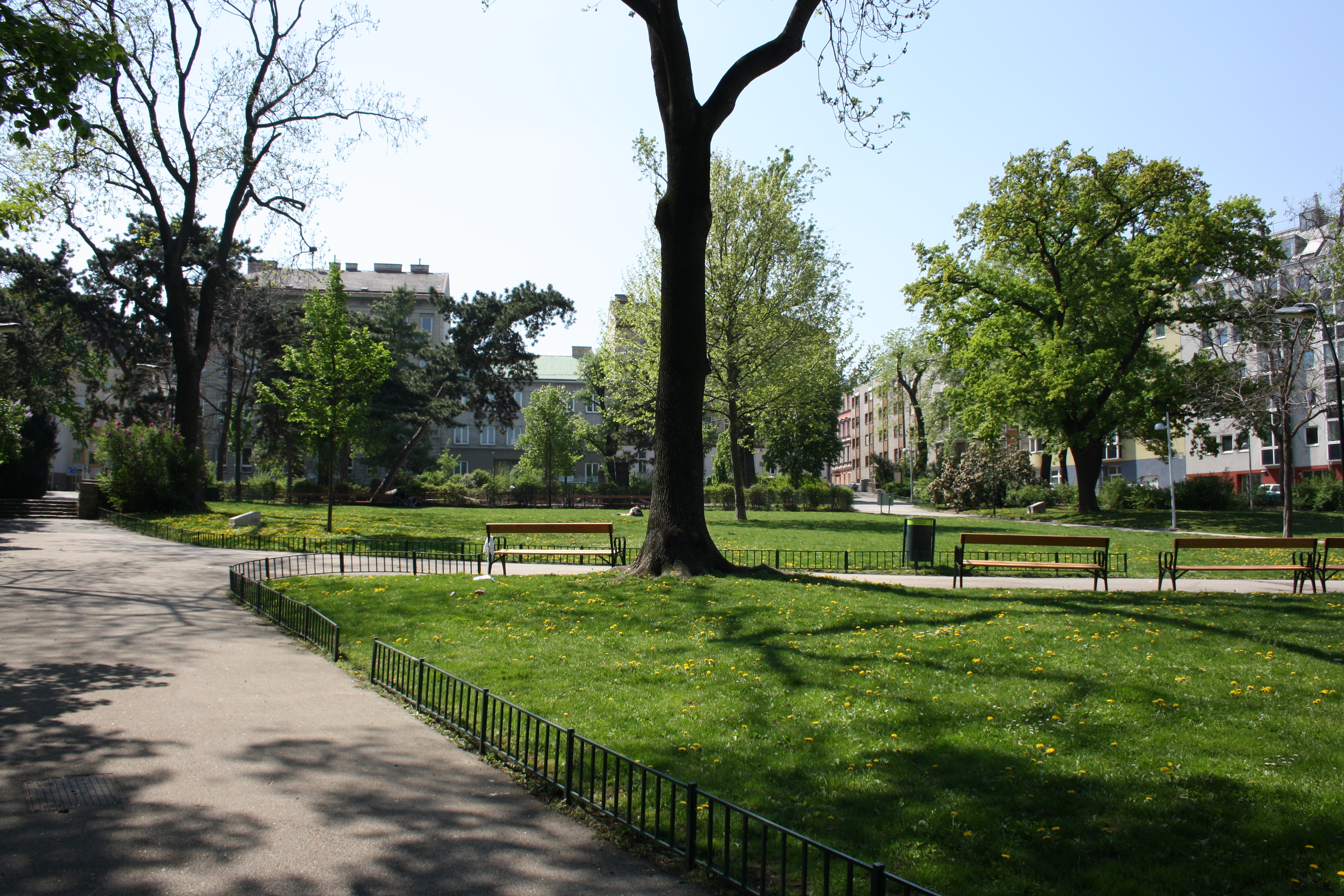 Schubertpark, 18th district of Vienna.